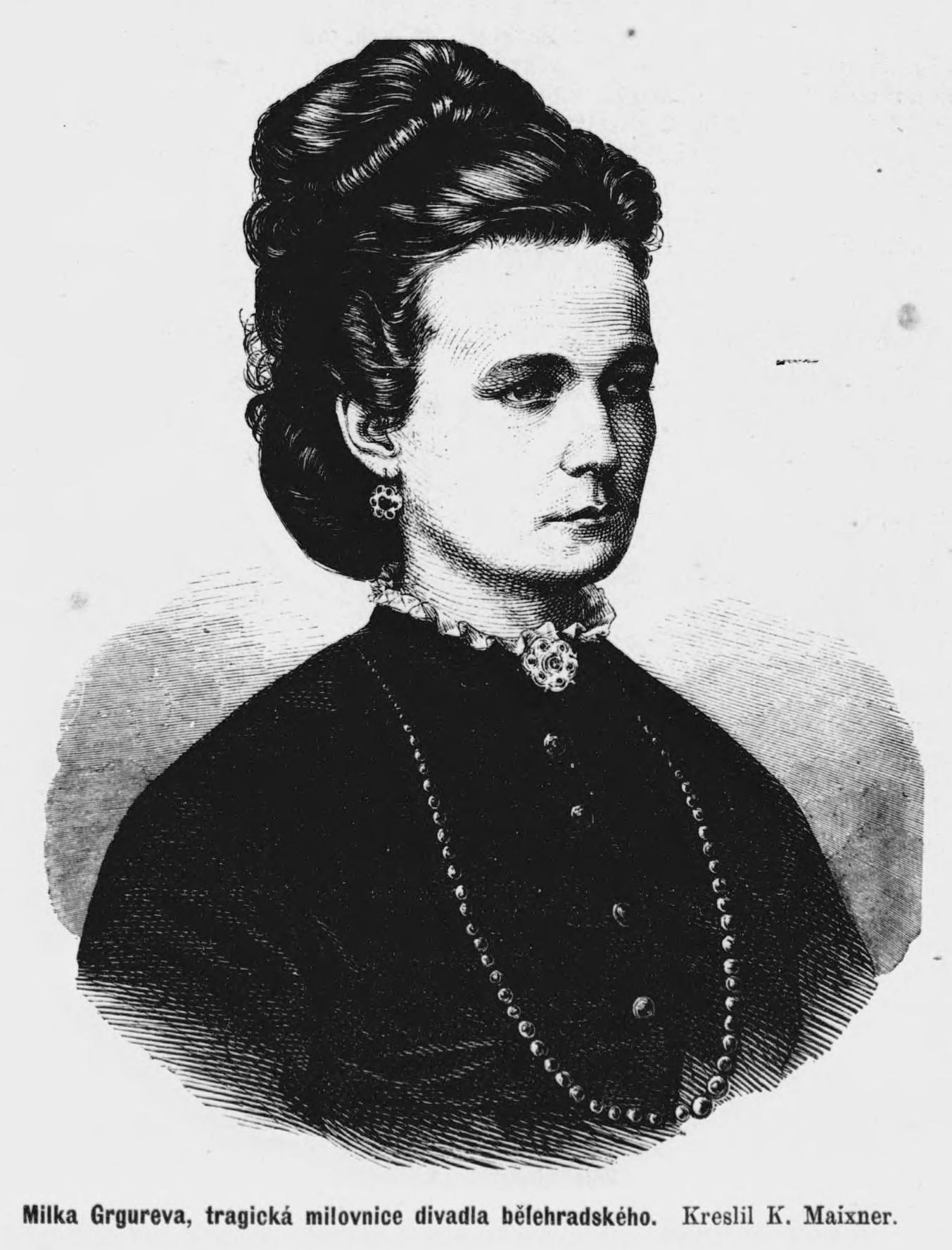 Portrait of Milka Grgurova-Aleksić (1840 - 1924), Serbian actress. Captioned as "tragic lover from Belgrade theater"